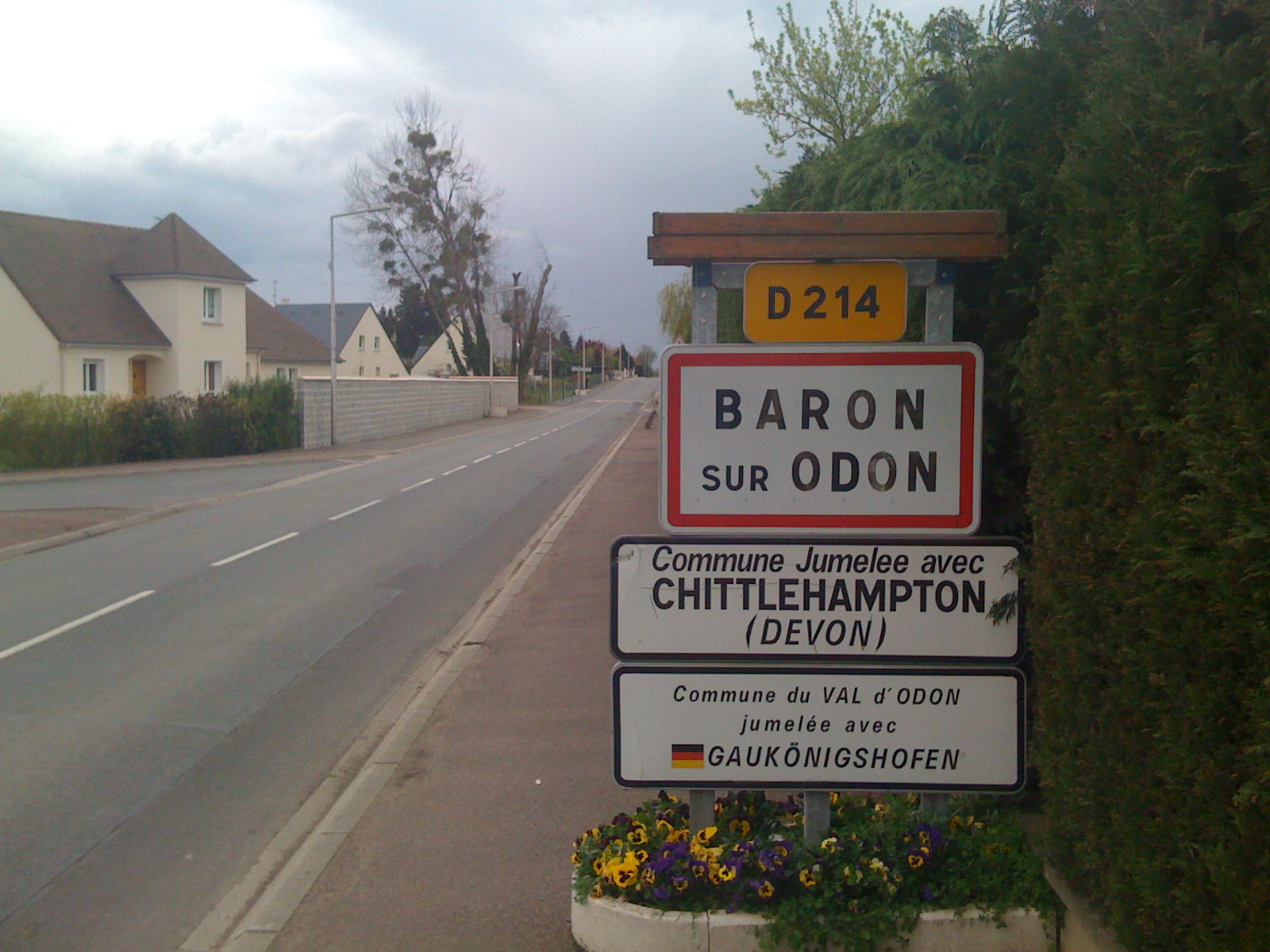 Picture of baron sur odon.